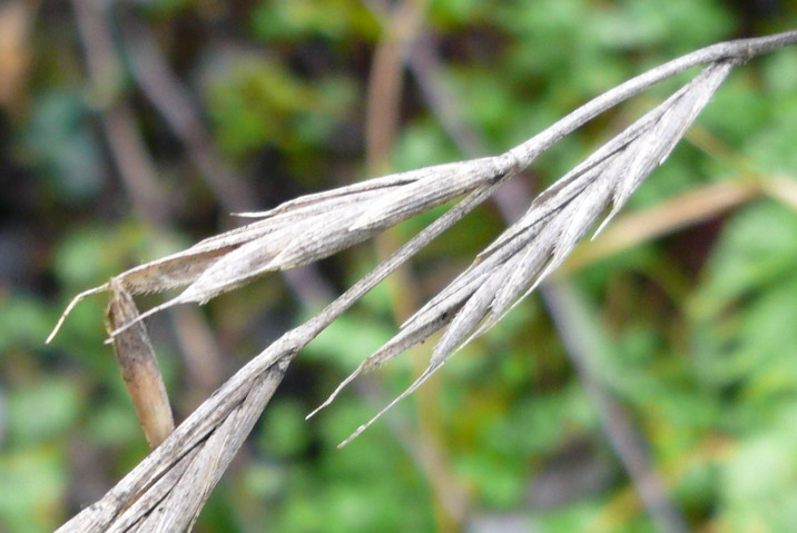 Brachypodium sylvaticum. In Collserola, Catalonia (see Collserola. I made the photograph on february 3rd 2007.